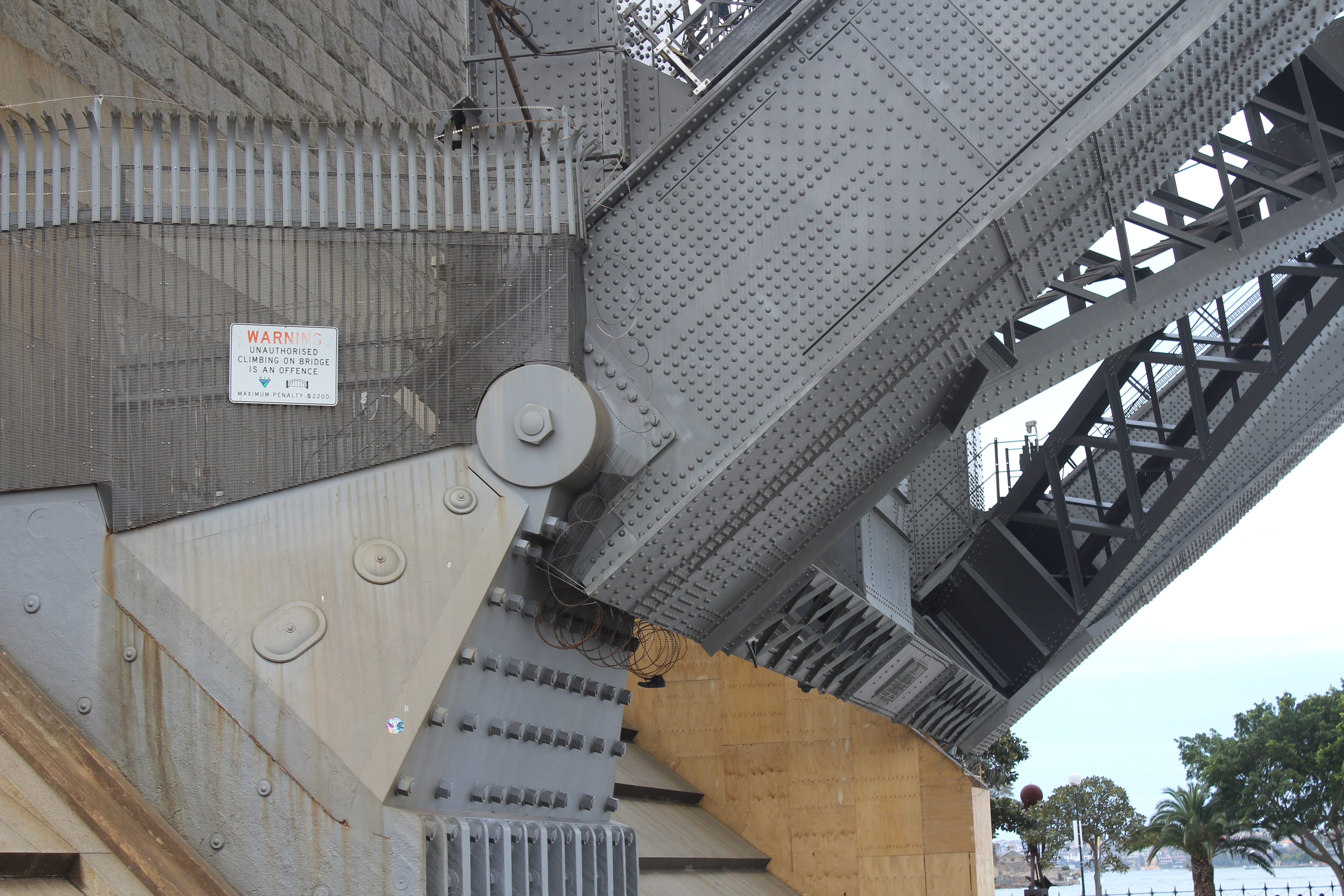 Sydney Harbour Bridge hinge at the southern end of the bridge. As the bridge expands and contracts with temperature, these hinges accept the flexing of the bridge itself. The four bearings in the hinges (two at each end of the bridge), each have a mass of 300 tonnes and each supports a thrust of 20,000 tonnes.[1] The size of the structure can be gauged from the pedestrian gangway between the two arches. ↑ Moy, Michael (2012) Sydney Harbour Bridge, Alpha Orion Press ISBN: 9780958106641.